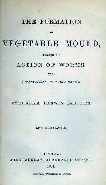 Title page: Charles Darwin, The formation of vegetable mould, through the action of worms, with observations of their habits. London: John Murray, 1881